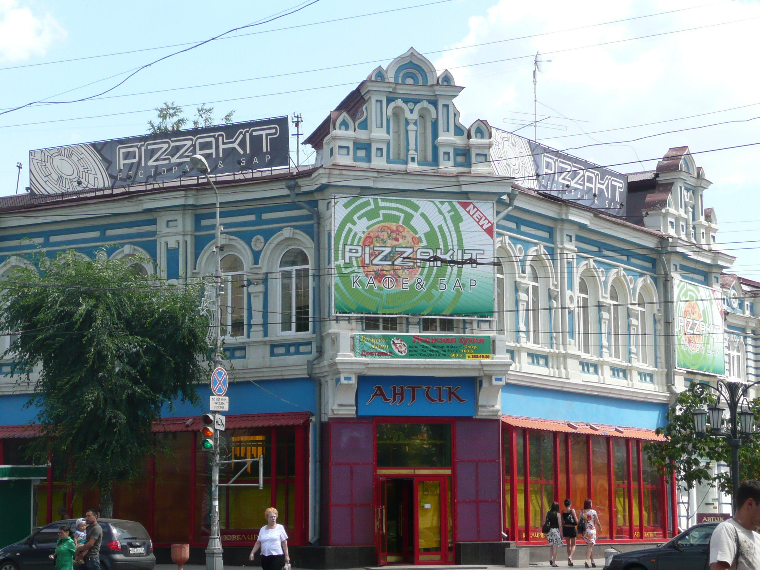 99_Kuybisheva_st_Samara.JPG